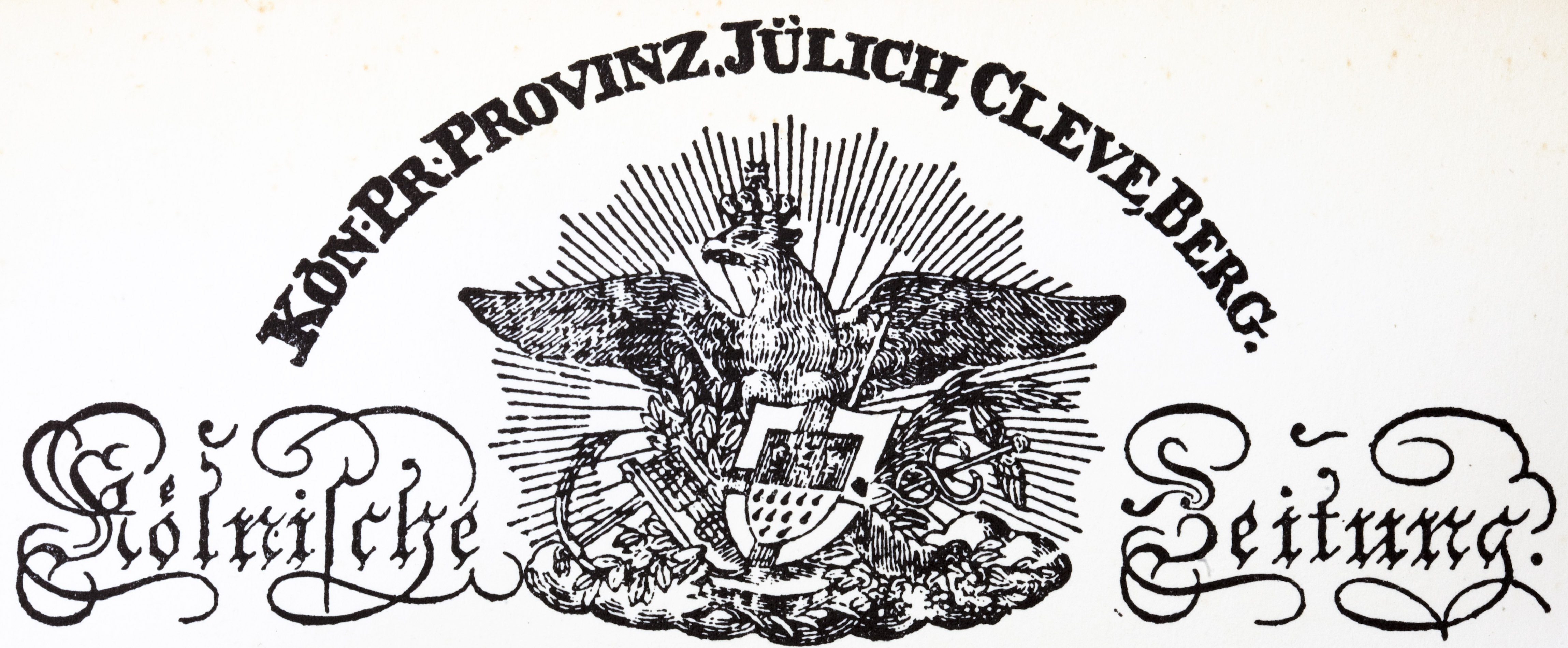 First Logo of the german national newspaper "Kölnische Zeitung", as issued on May 4, 1870